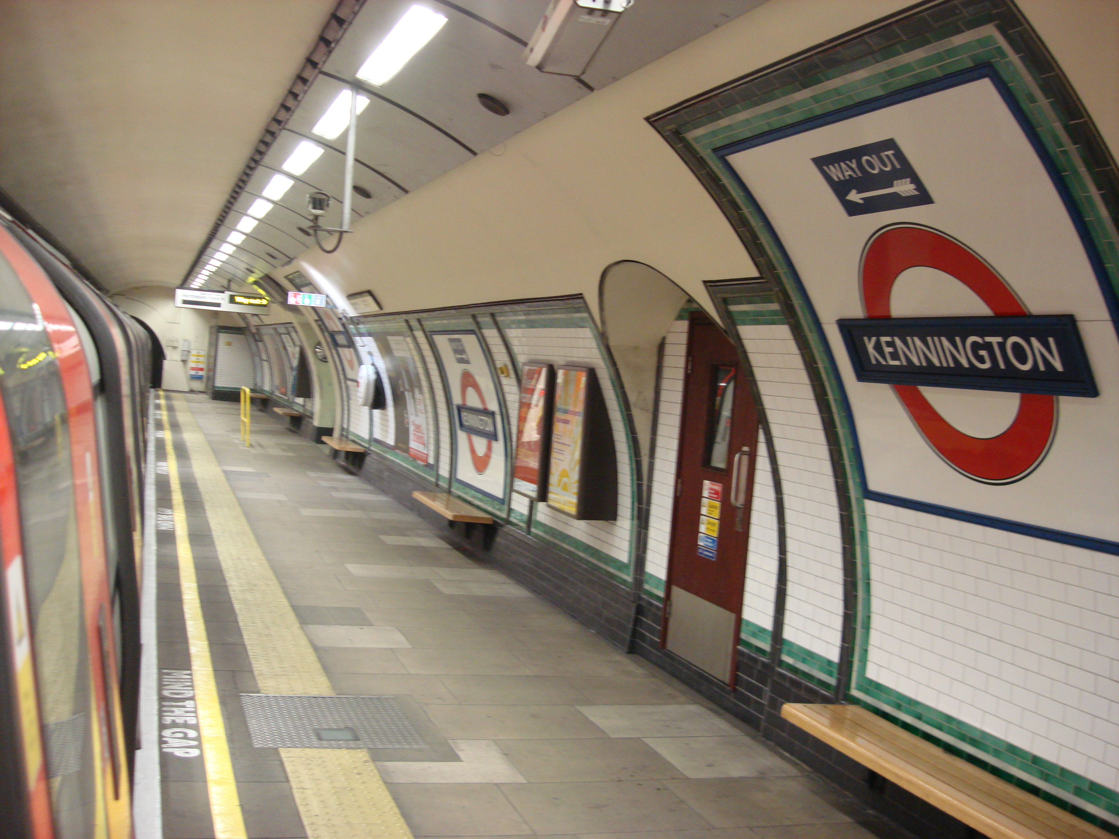 Southbound Bank branch platform at Kennington